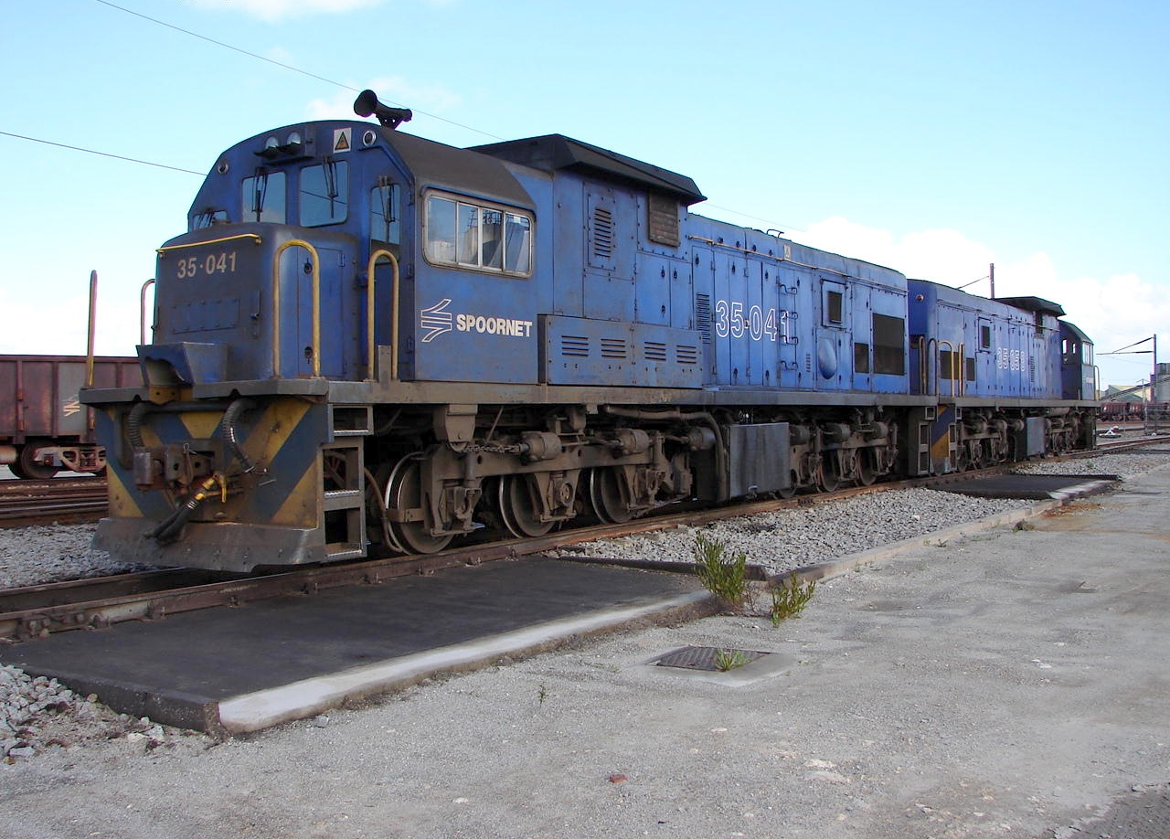 South African Class 35-000 35-041 Builder's Number: GE 38201 Type: GE U15C Location: Saldanha, Western Cape